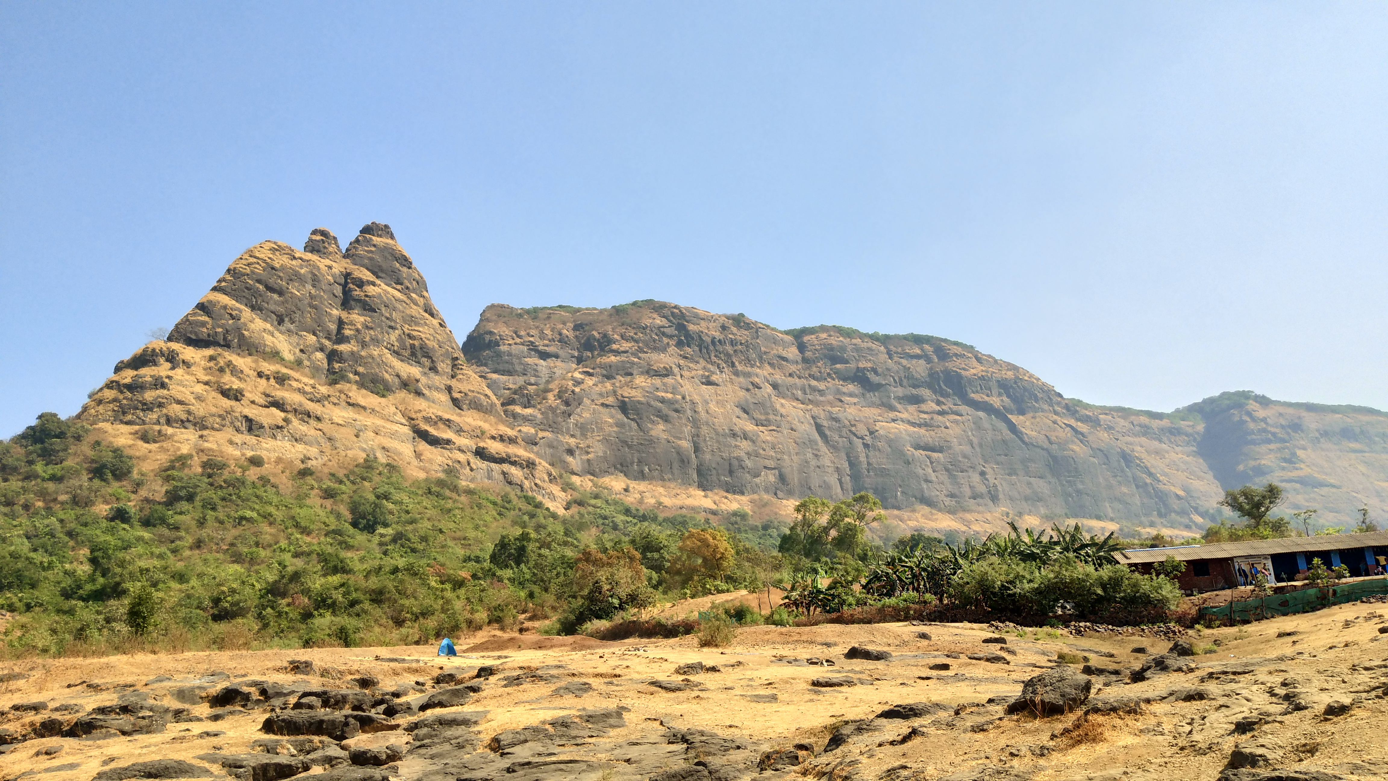 Highest and dangerous tracking spot in India, It's Prabalmachi also known as Kalavantin Durg